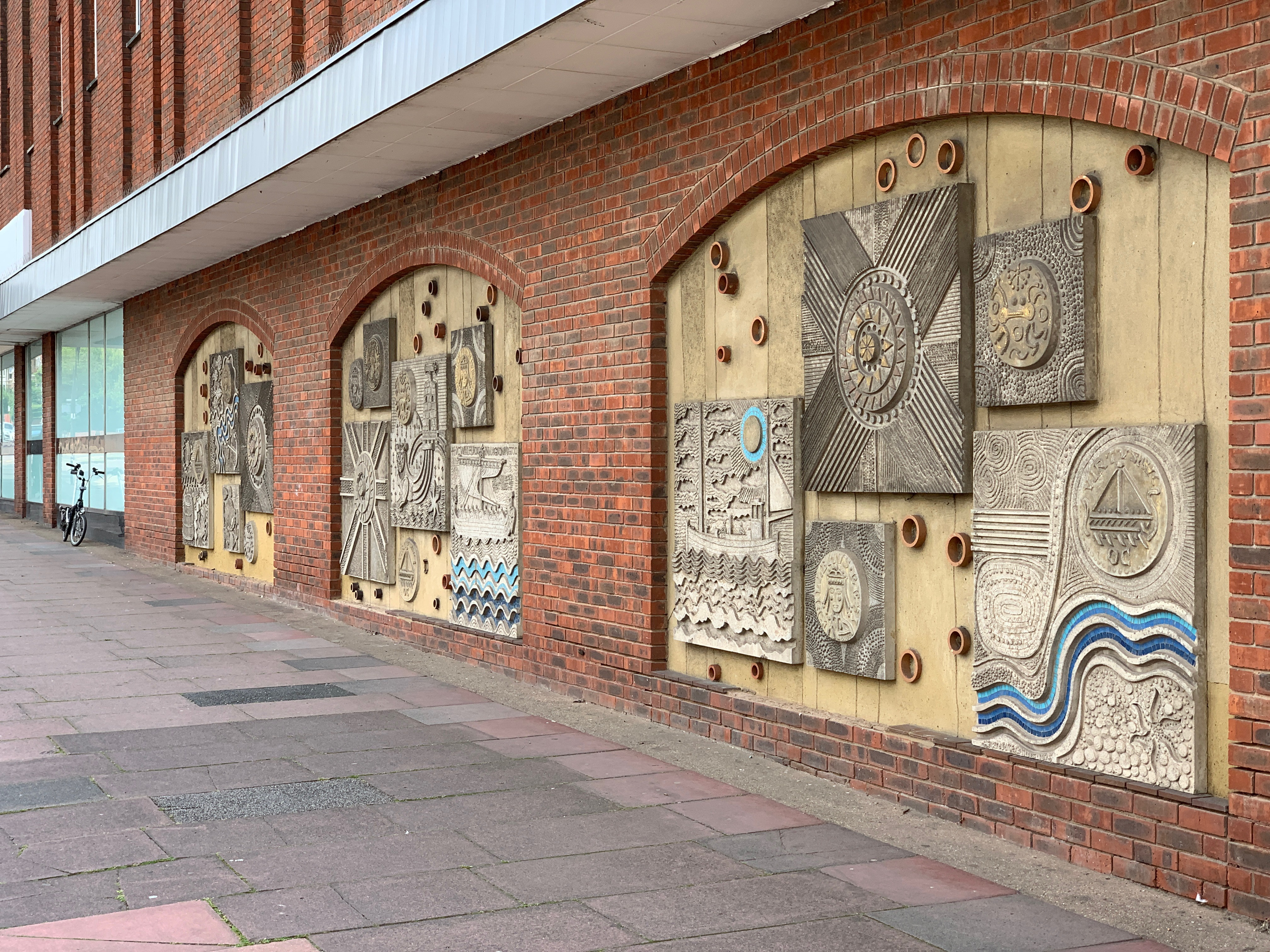 An existing concrete mural sculpture by Henry and Joyce Collins on the wall of Sainsbury's store, Bexhill, East Sussex